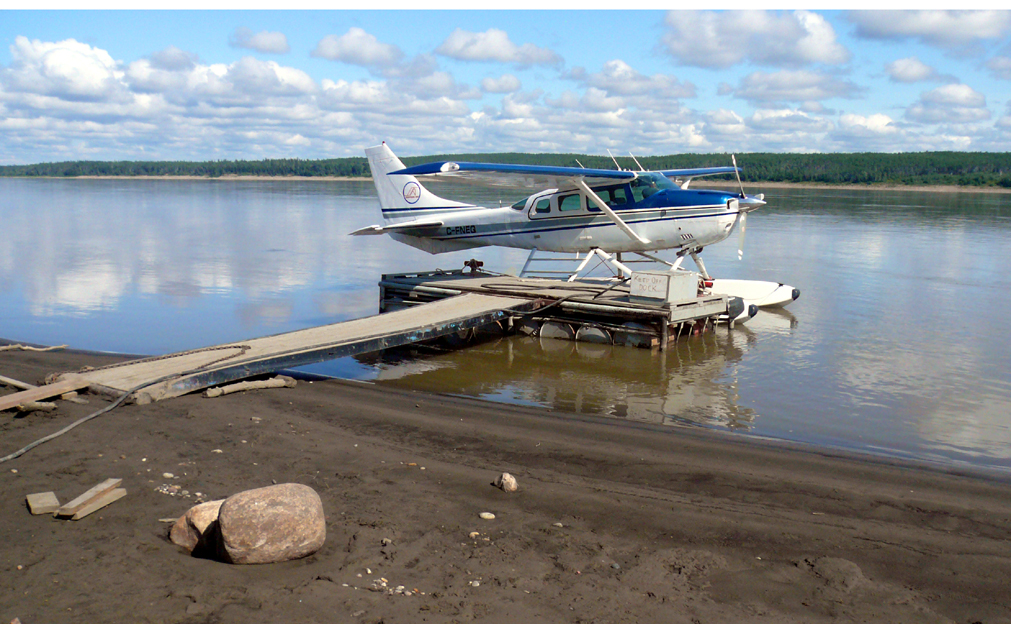 Hydroplane on Mackenzie River, Fort Simpson, NWT, Canada; registration C-FNEQ